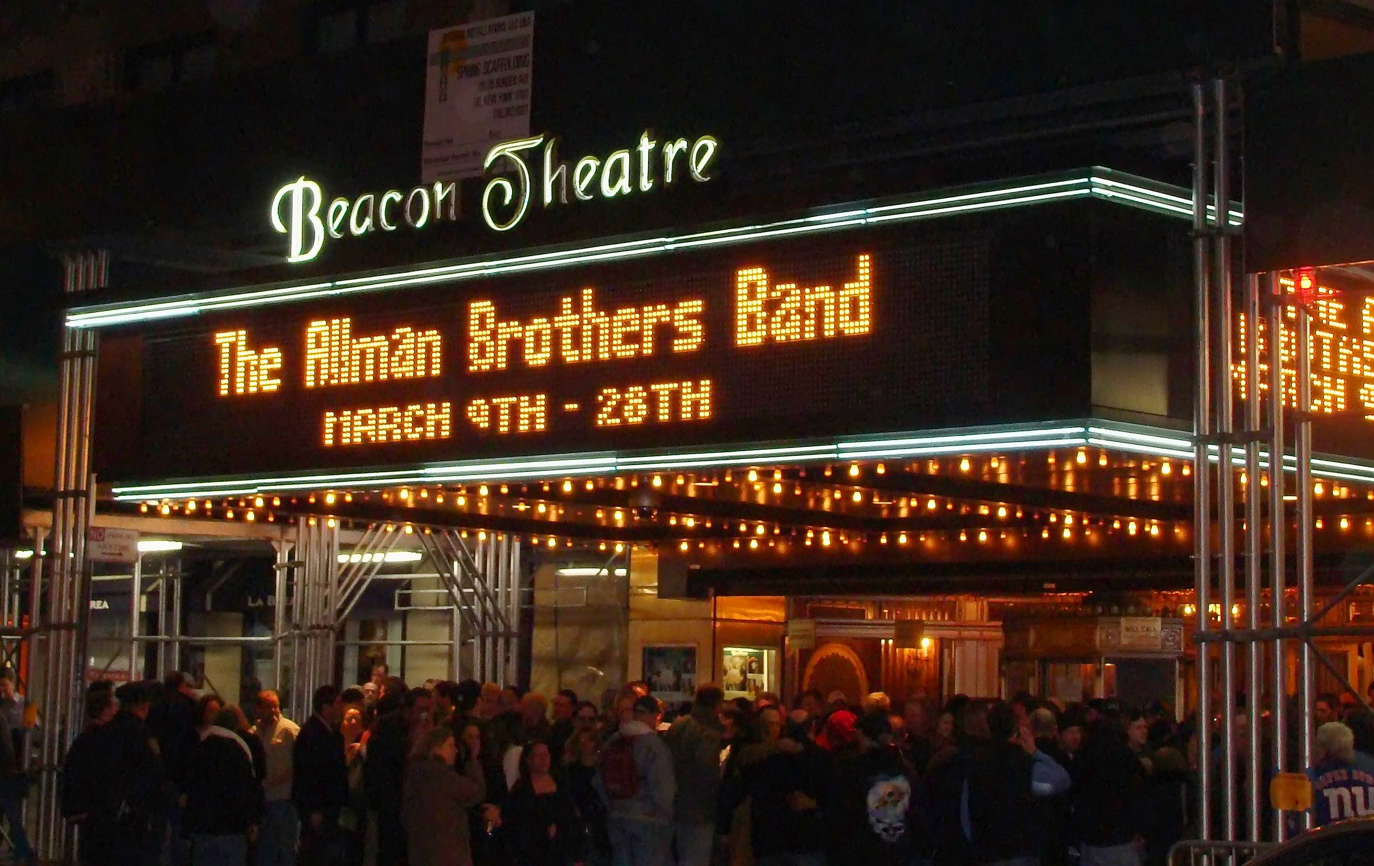 Opening night for the Allman Brothers Band at the Beacon Theater, New York City, March 9th, 2009